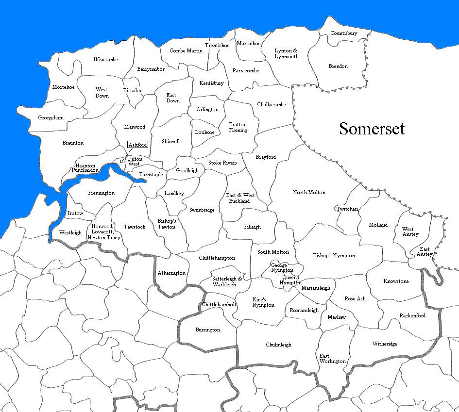 Parishes of North Devon, based on Kain, Roger & Ravenhill, William, (Eds.), Historical Atlas of South West England, Exeter, 1999, inside front cover